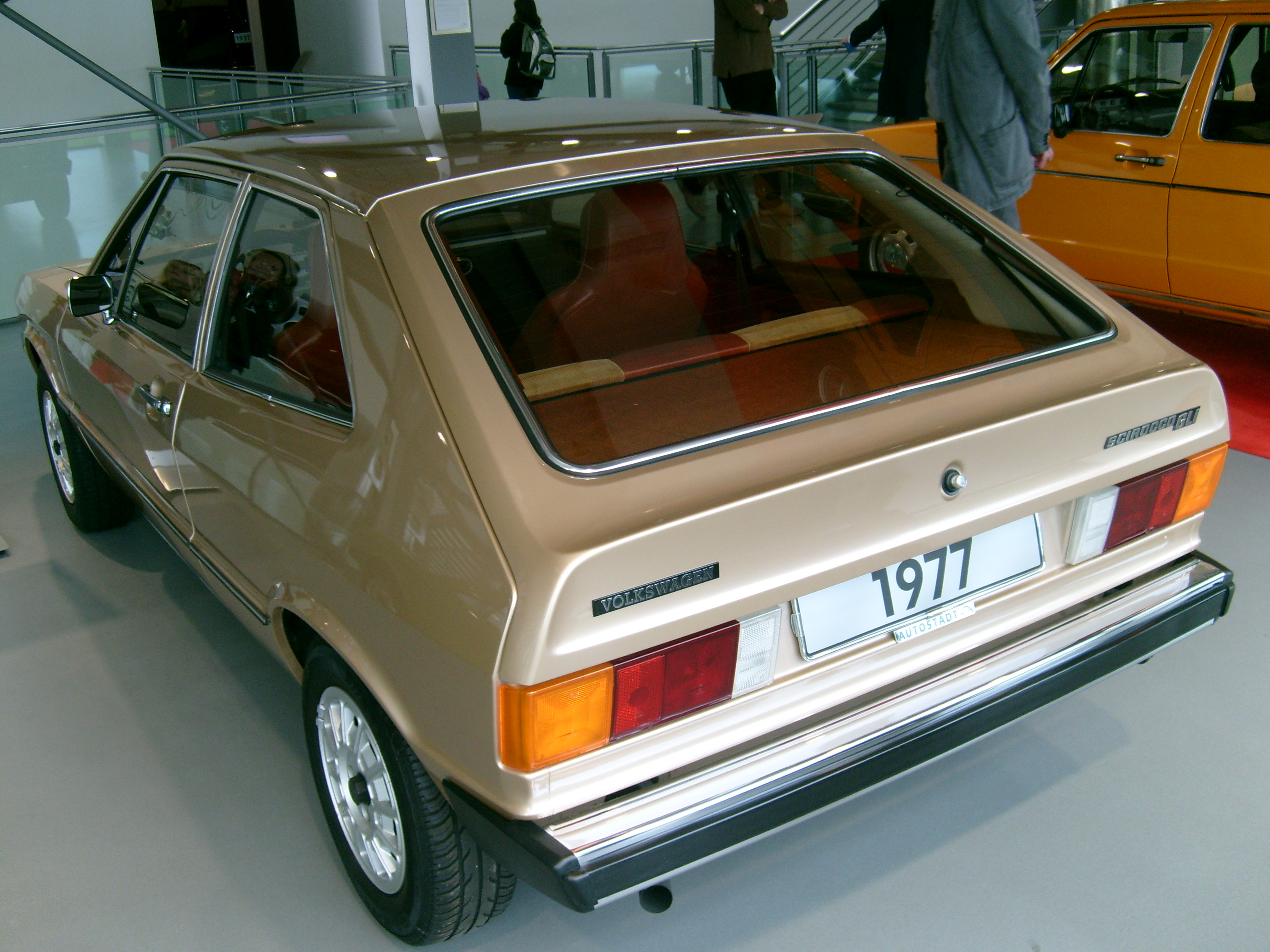 1977 Volkswagen Scirocco GLi @ Automuseum Volkswagen and Autostadt